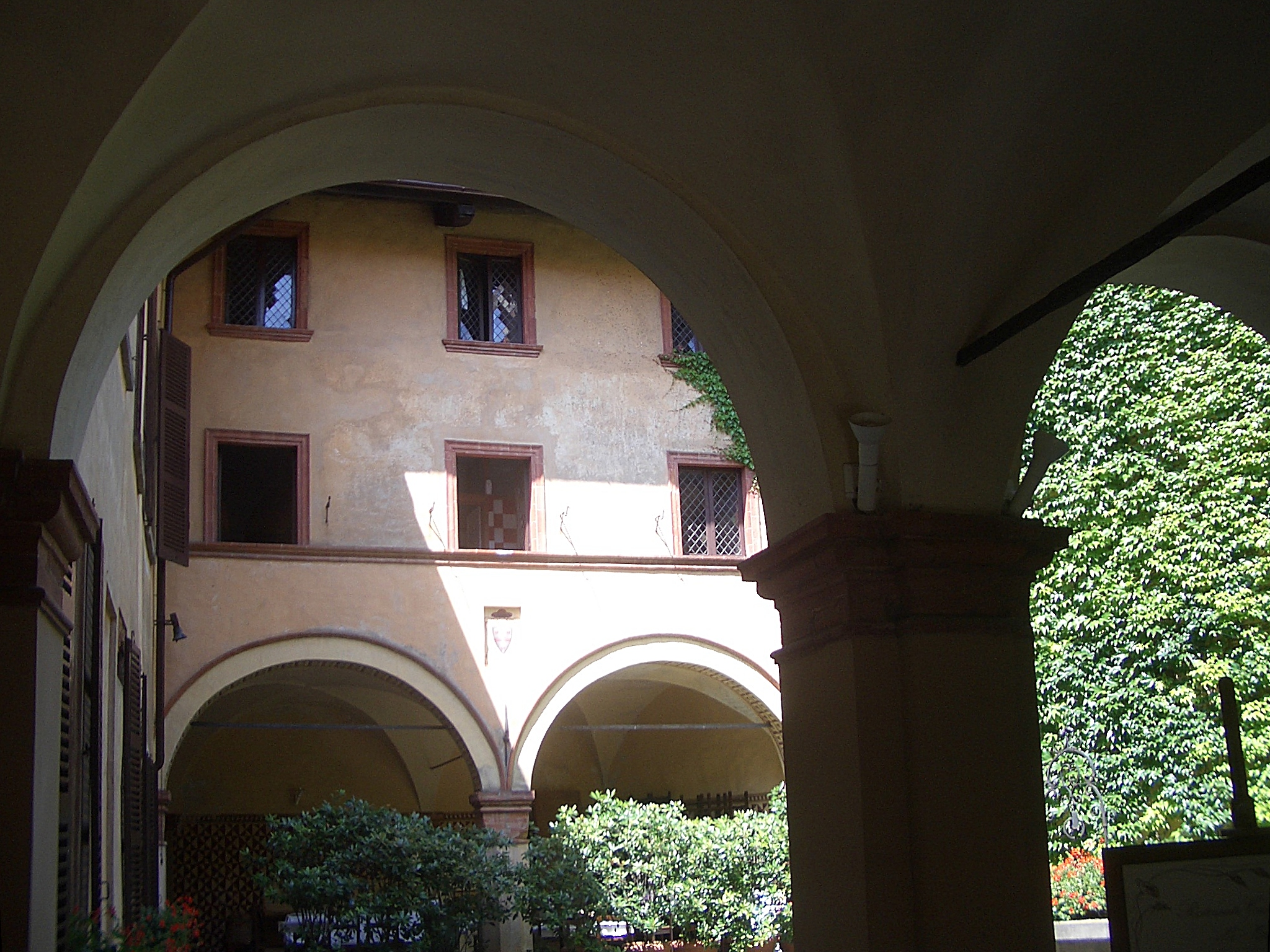 "The courtyard of the castle, Roppolo, Province of Biella, Italy